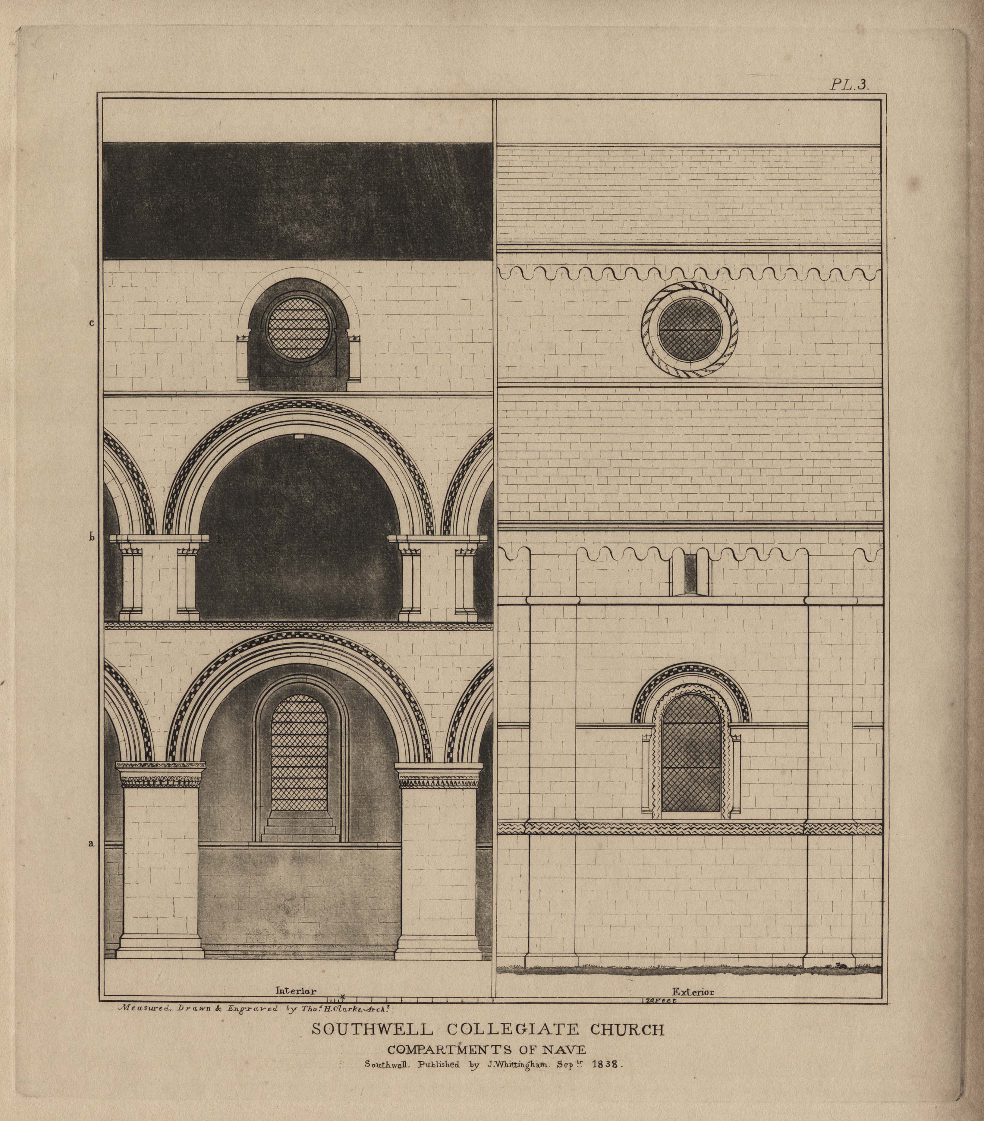 Southwell Minster Plate III Compartments of nave. From: Killpack, William Bennett (1839) The history and antiquities of the collegiate church of Southwell, Simpkin, Marshall, and Co.